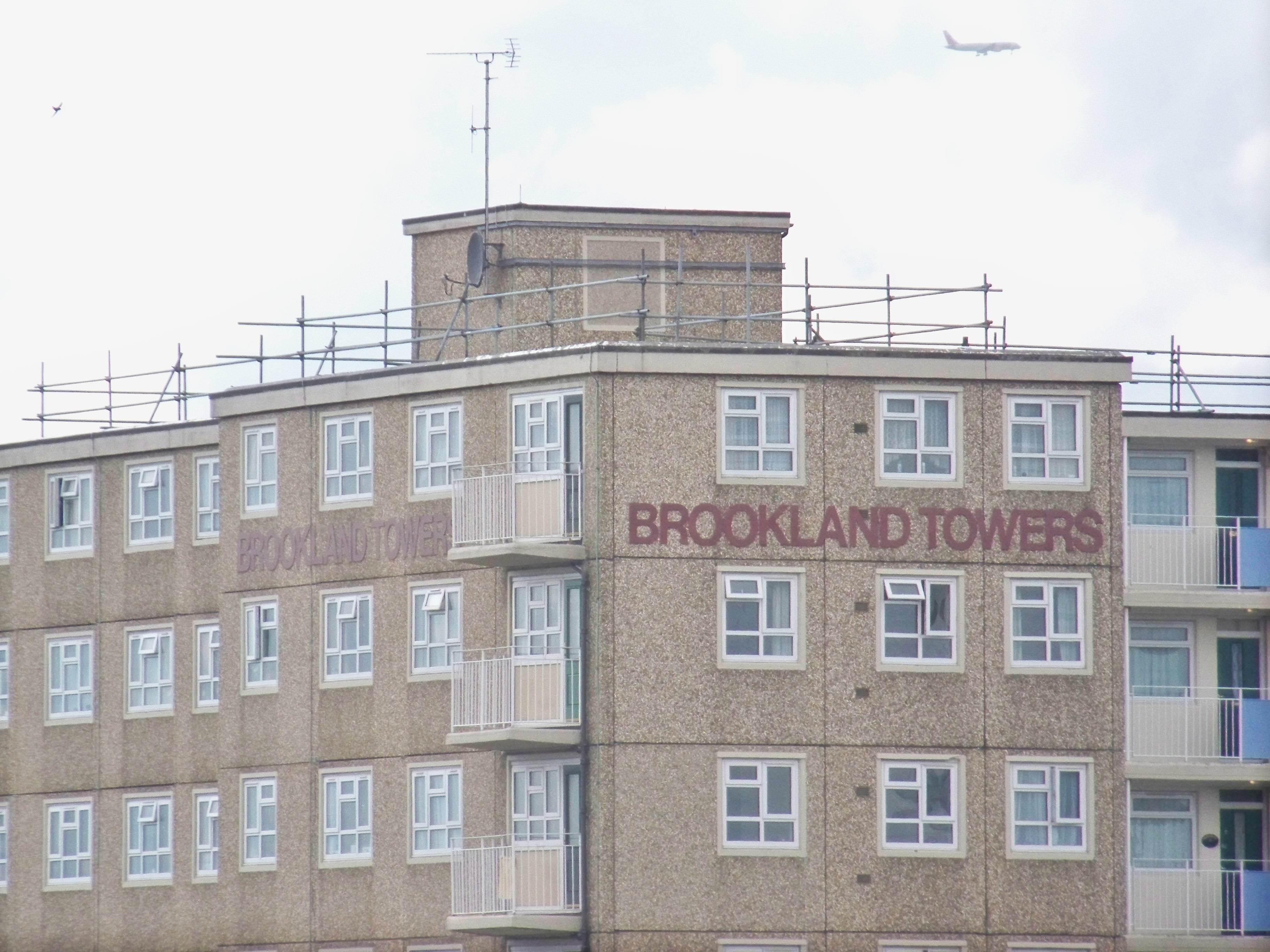 The top of Brookland Towers in Seacroft, Leeds, West Yorkshire. The roof line of the structure can be seen, showing scaffolding around the roof where work seems to be taking place. Notice also the close detail of the pebble-dash, quite typical on such prefabricated structures. A Boeing 757 can be seen coming into land at Leeds Bradford International Airport. Taken from the platform to the rear of the Seacroft Green Shopping Centre on the afternoon of Thursday the 27th of May 2010.